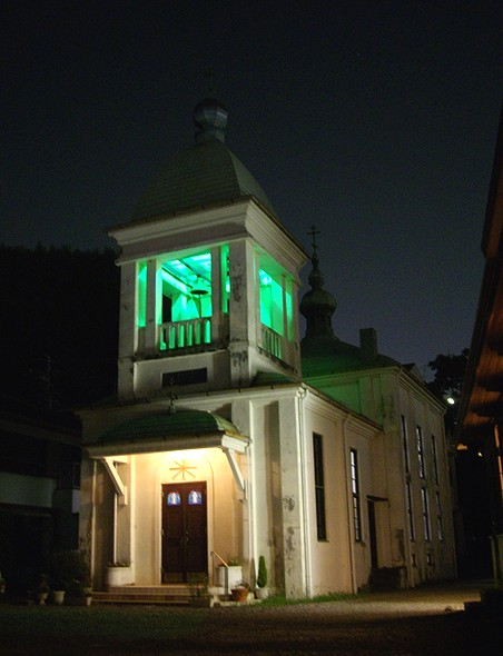 Orthodox Church in Shizuoka, dedicated to the Protection of the Holy Theotokos, belonging to the Orthodox Church in Japan.